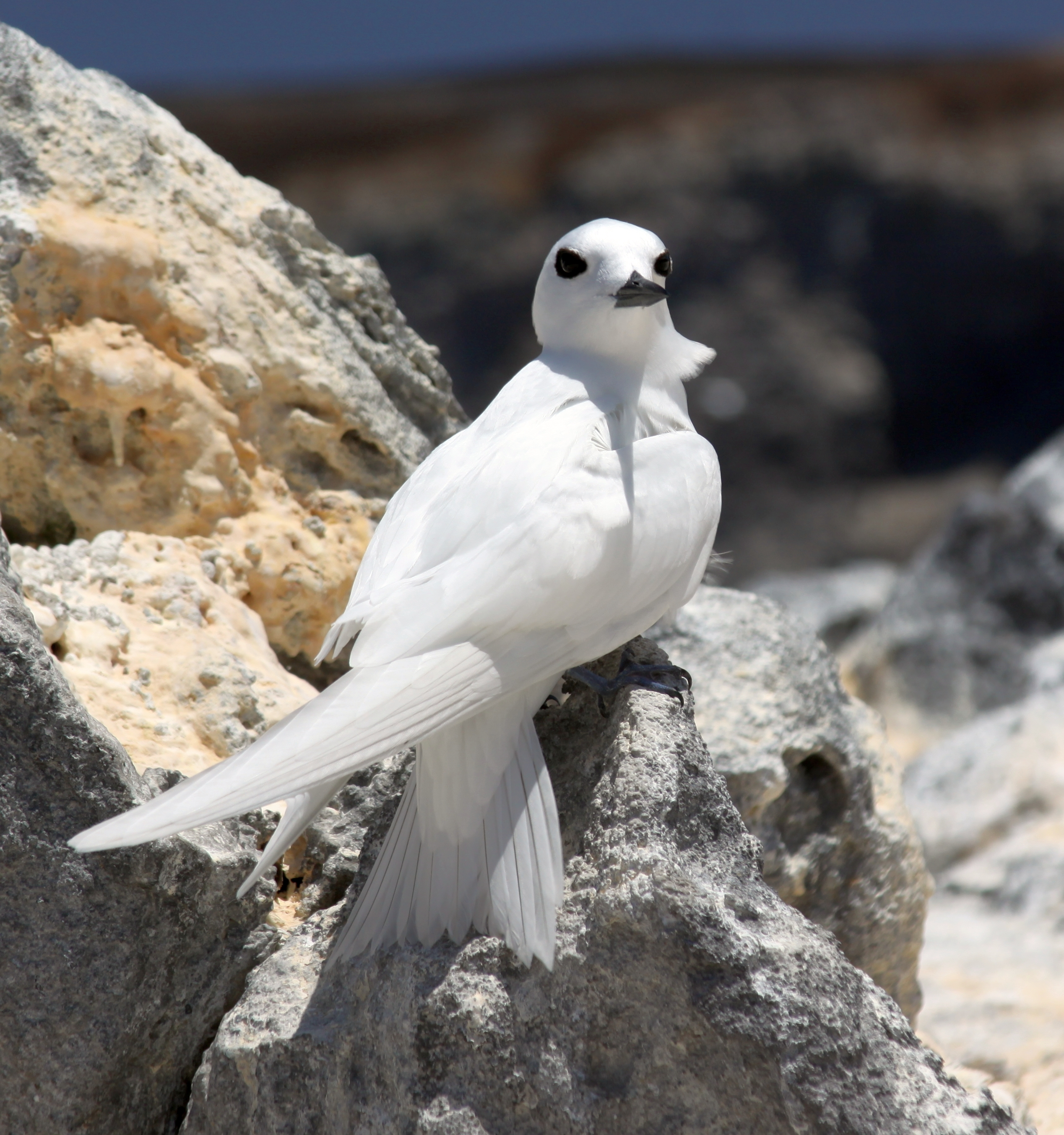 Gygis alba, Boatswain Bird Island, Ascension Island